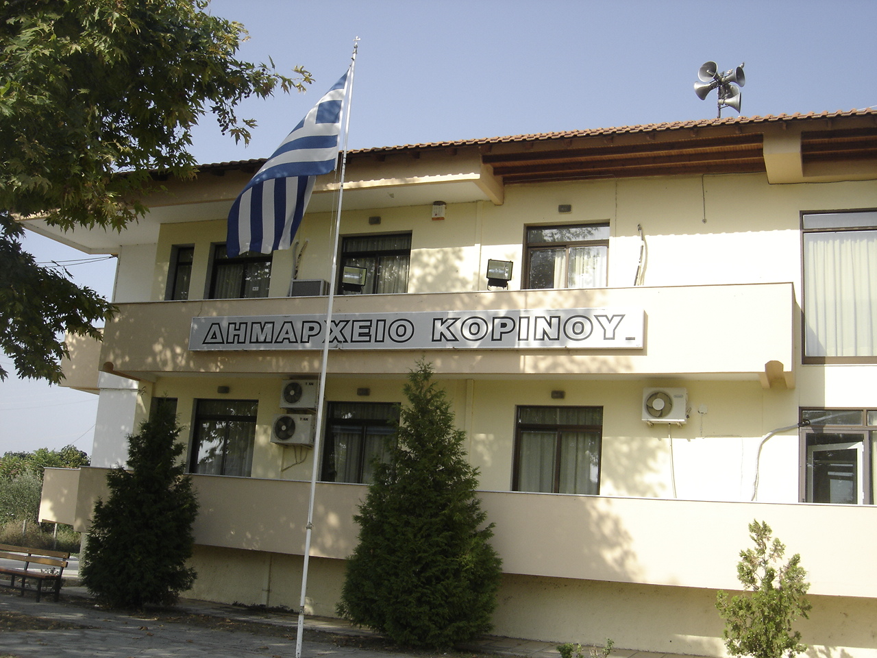 The city hall of Korinos.